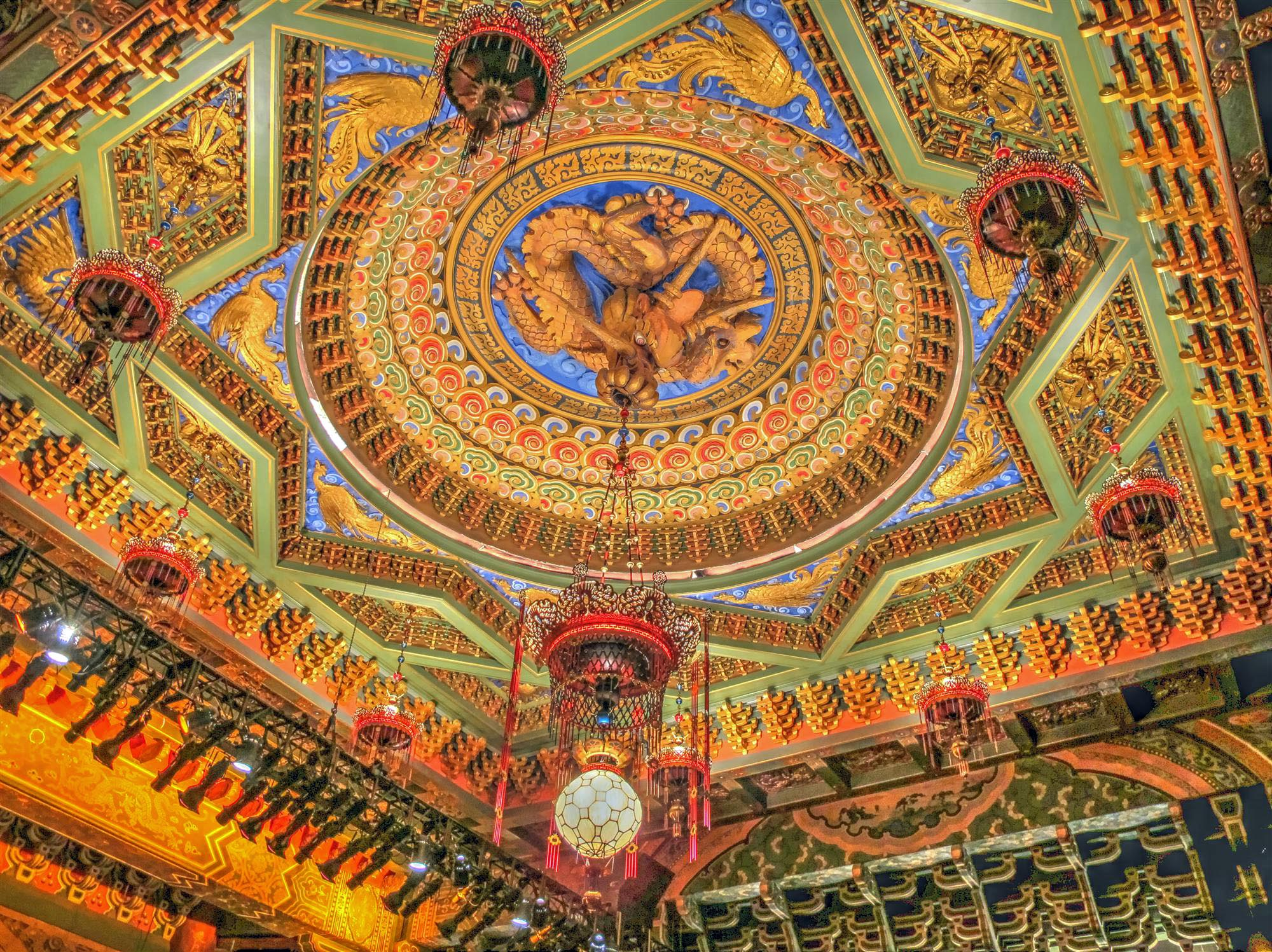 Ceiling, 5th Ave Theater